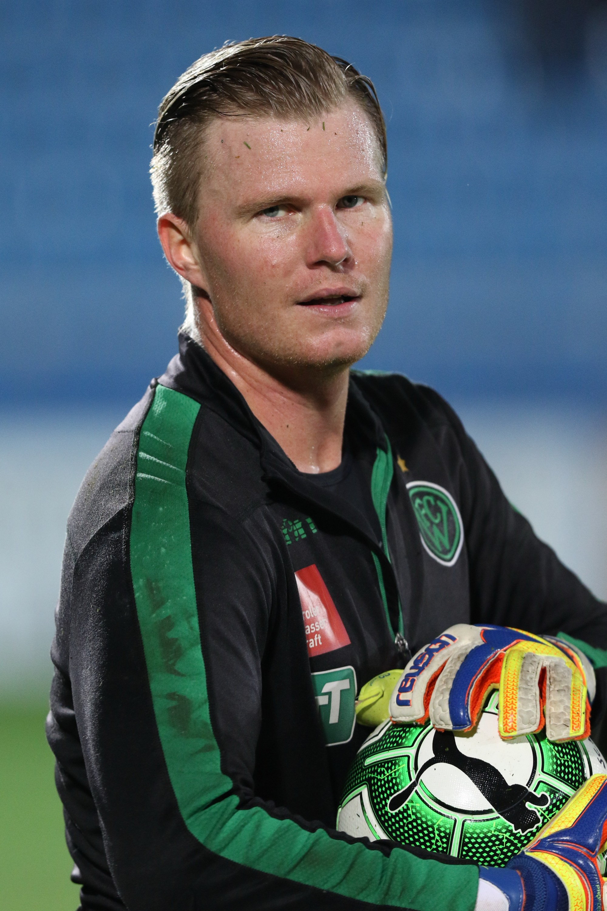 Football-championship Erste Liga 2017–18 - SC Wiener Neustadt (white shirts) vs. FC Wacker Innsbruck (black-green shirts) 0-1. – The photo shows the goalkeeper of FC Wacker Innsbruck Christopher Knett.